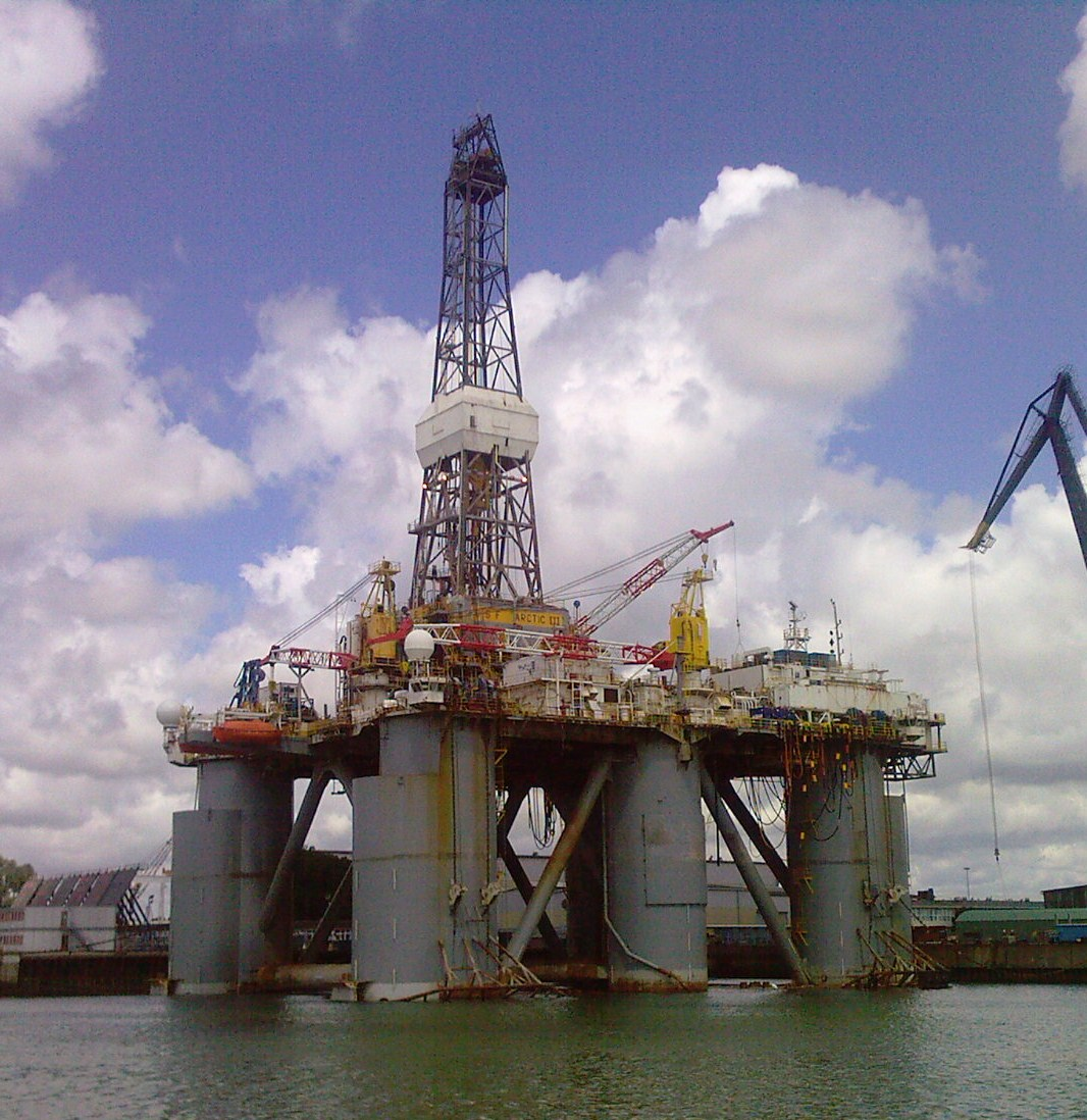 1,800 Foot Semisubmersible drilling rig GSF Arctic III